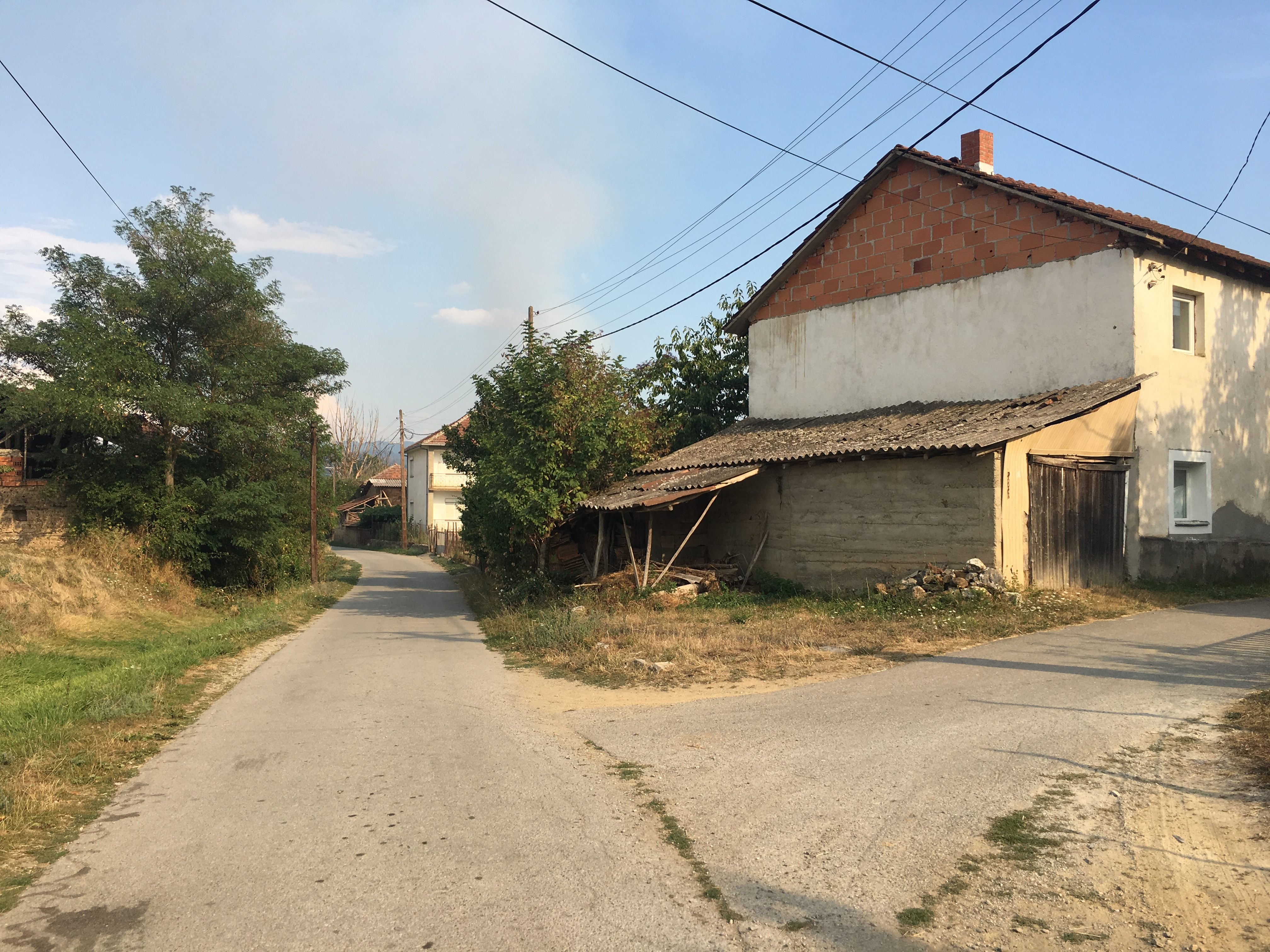 Streets through the village of Livoišta